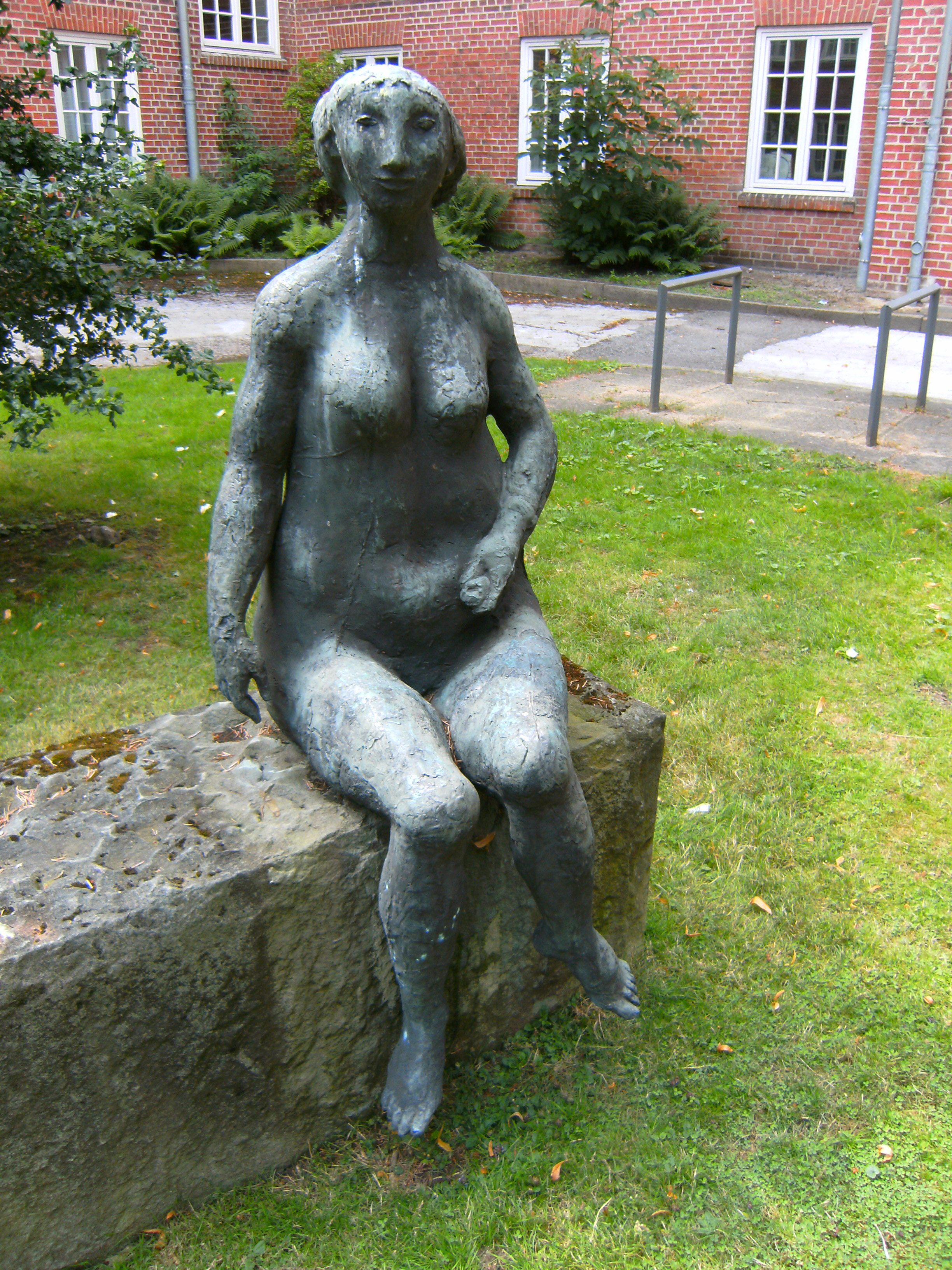 Hamburg, Germany, Finkenau, court of Mediencampus: Sculpture Ceres by Ursula Querner (1921-1962)